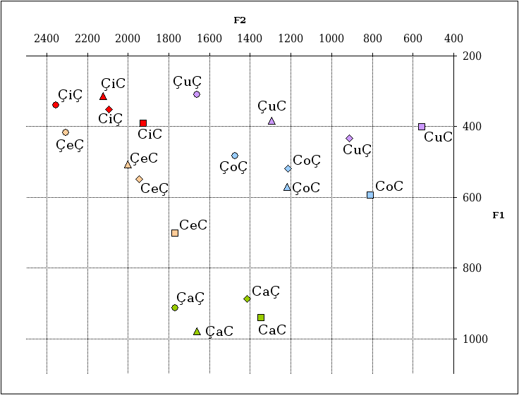 Russian stressed vowels formants F1 and F2 (C = hard/non-palatalized consonant, Ç = soft/palatalized consonant).